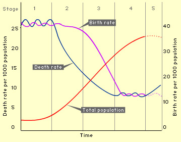 Stage 5 in the demographic transition